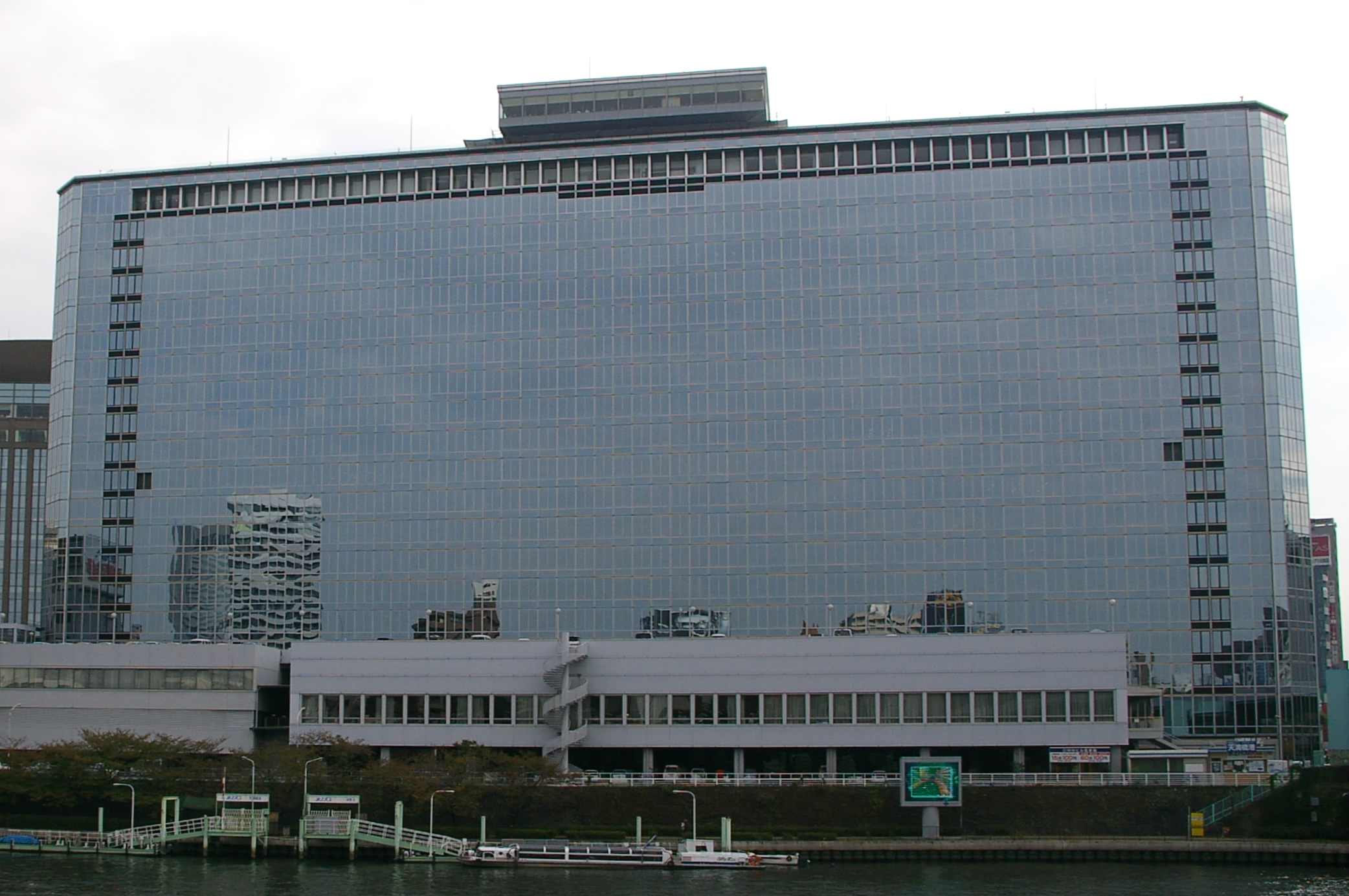 Photograph of Osaka Merchandise Mart Building in Chuo-ku, Osaka, Osaka Prefecture, Japan.